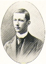 Joseph, Duke of Parma